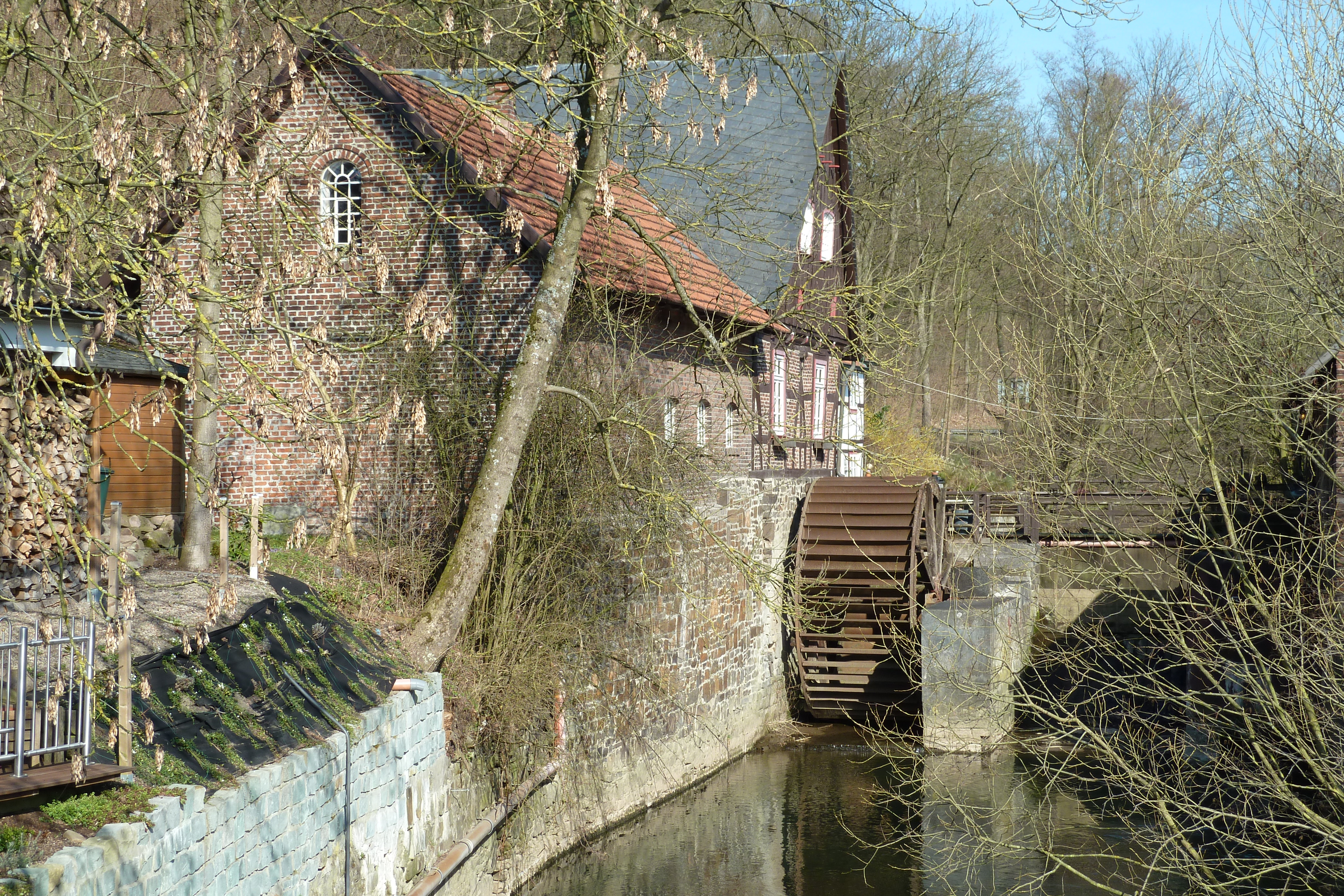 Watermill in Warstein-Niederbergheim, Germany.